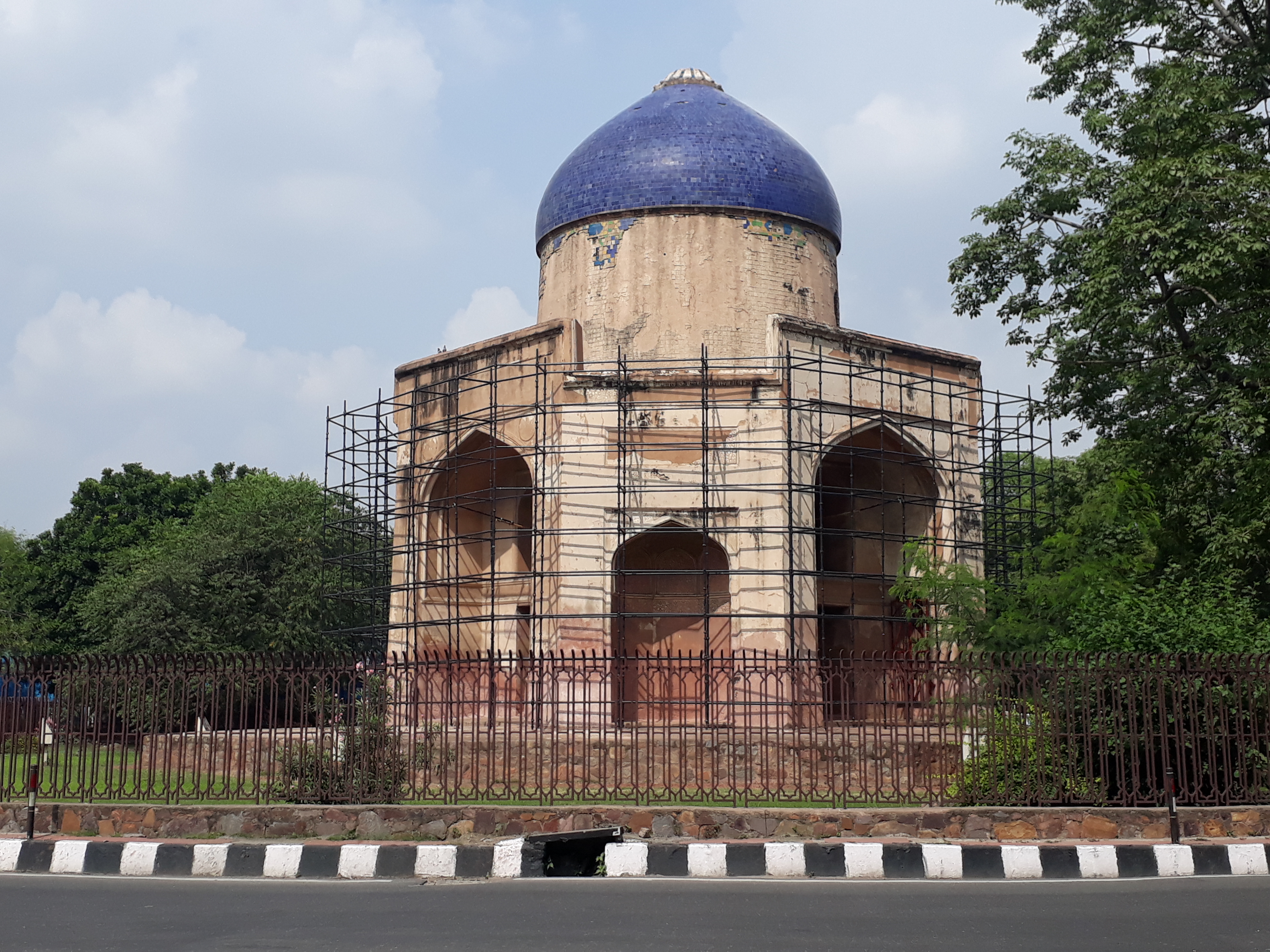 Sabz Burj in Old Delhi, near Humayun Tomb